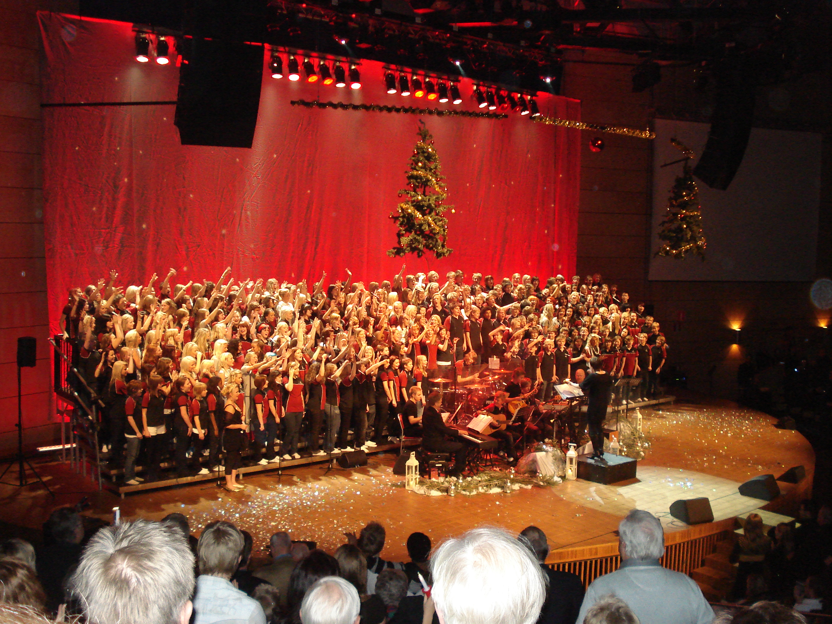 A picture from Karl Johans skola's Christmas concert 2007.